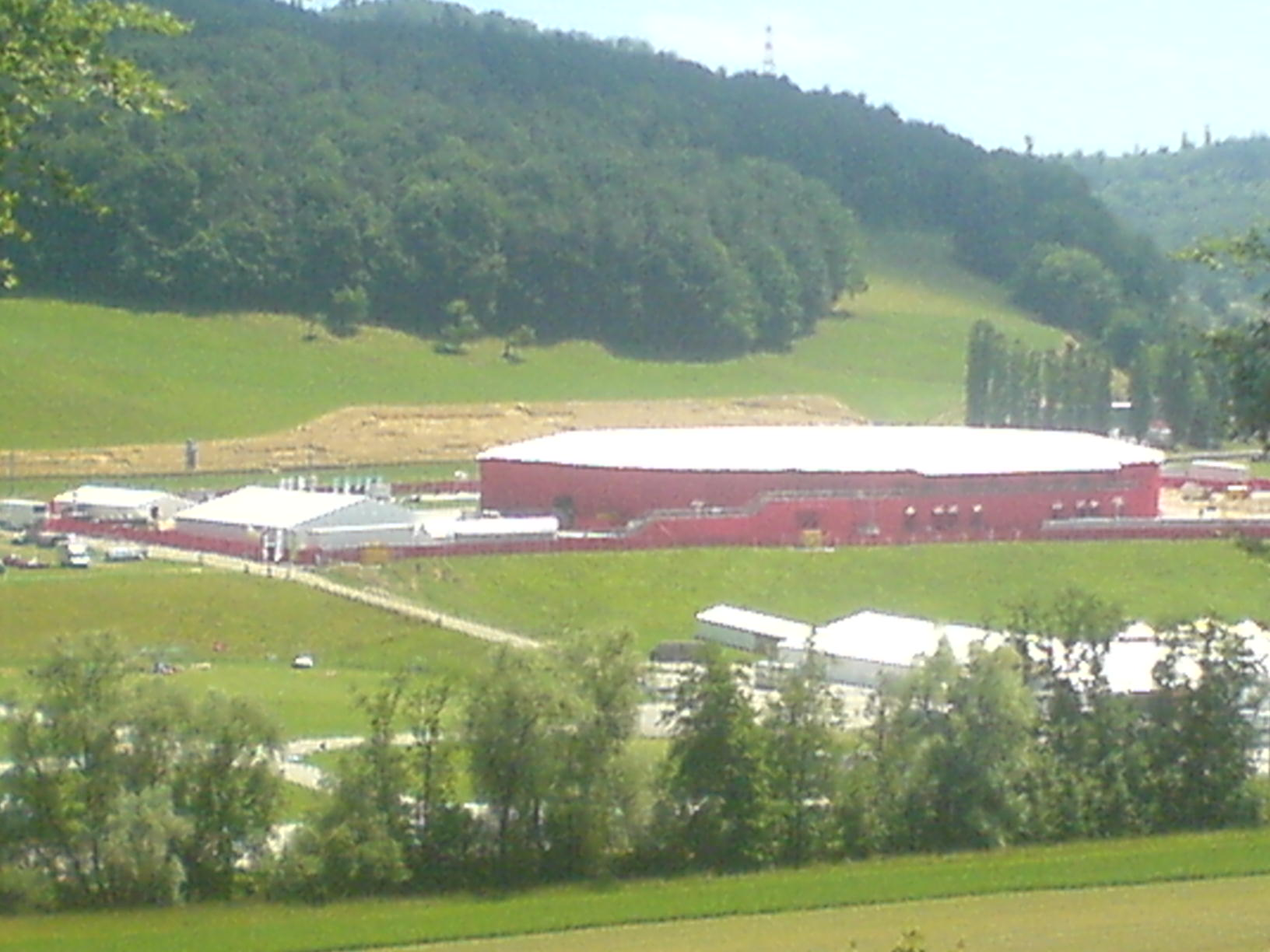 9th Stadium at Bad Bubendorf, Switzerland, during UEFA Euro 2008